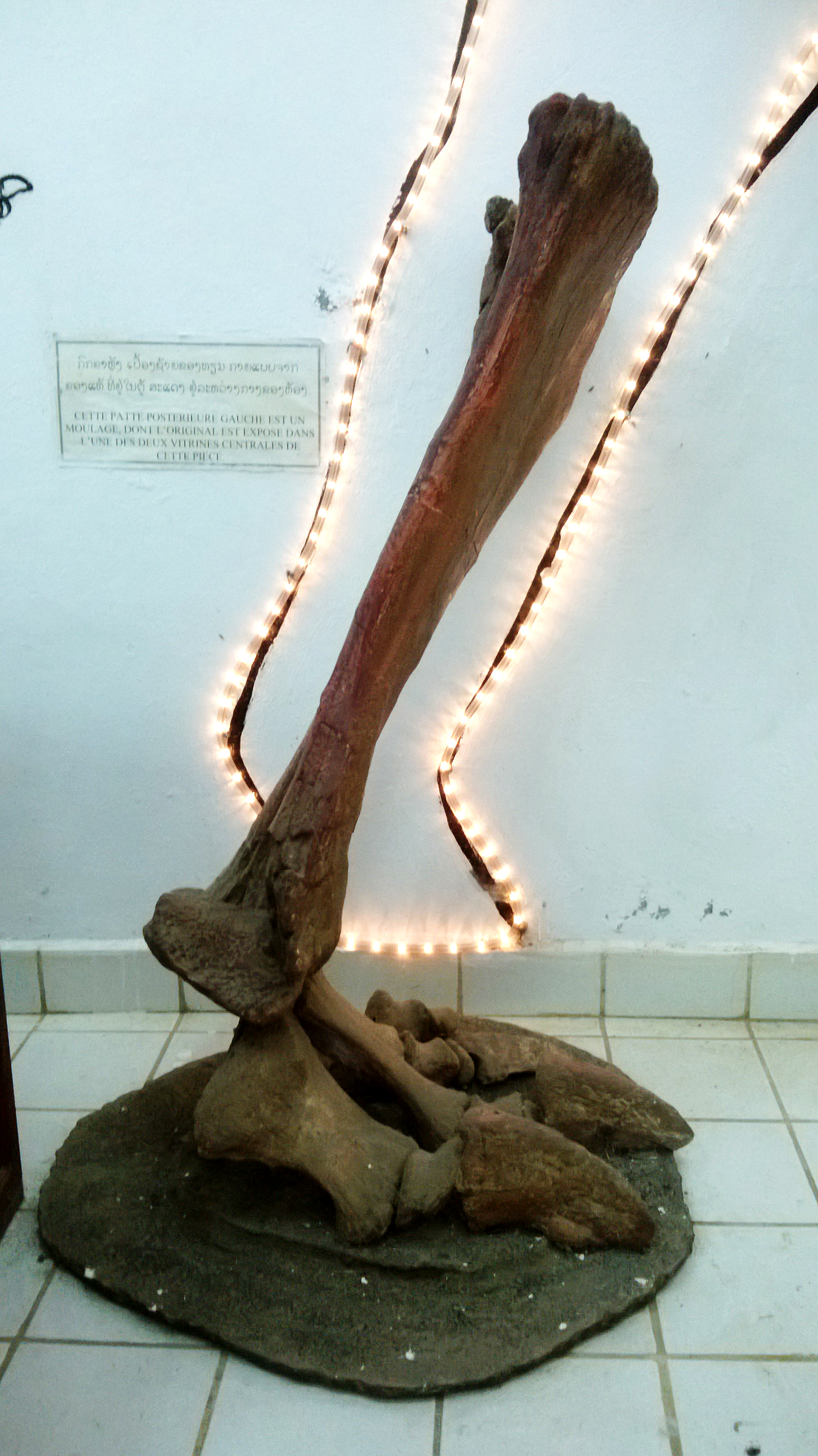 Leg Tangvayosaurus hoffeti (original). Dinosaur Museum, Savannakhet.